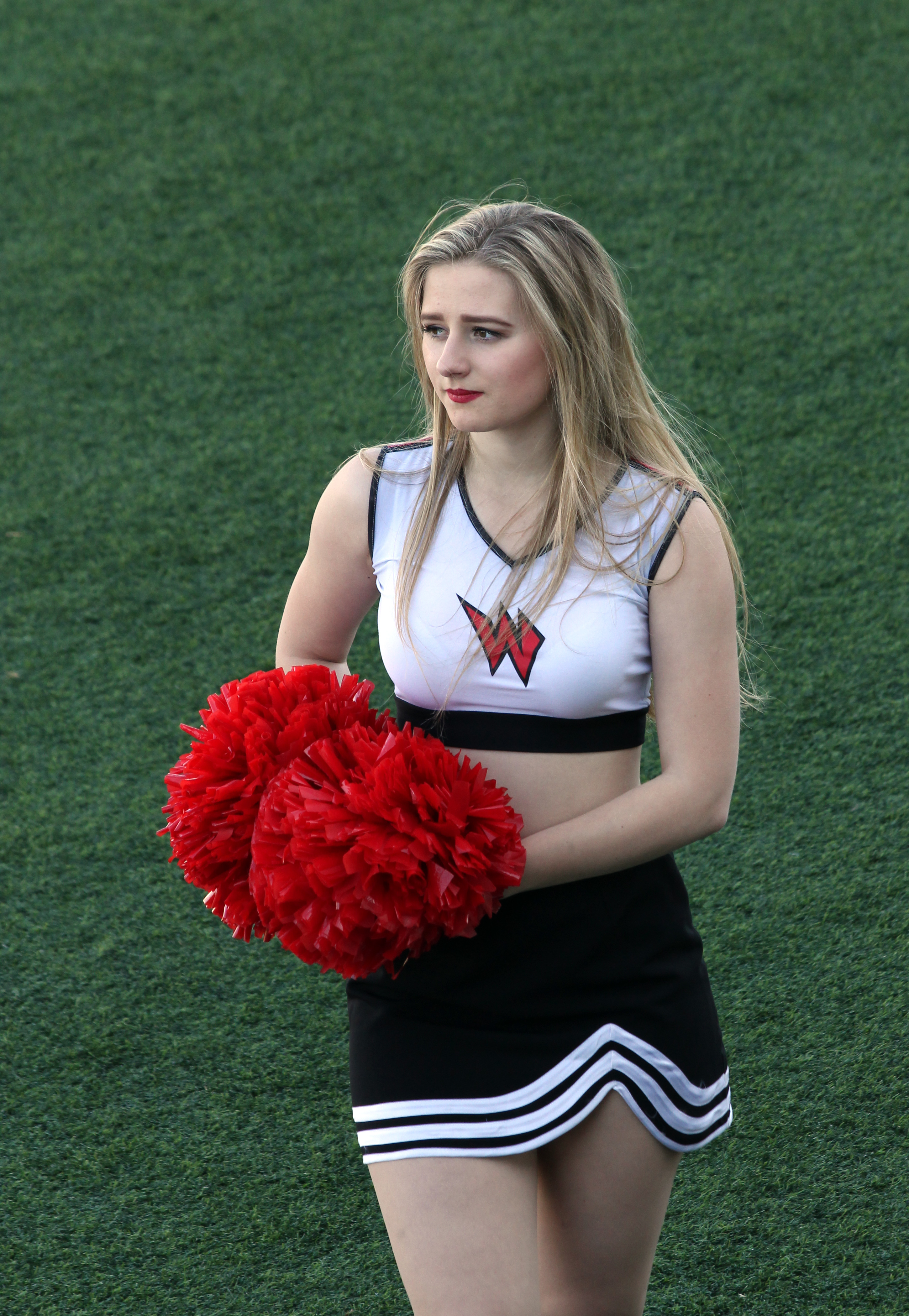 American football in Ukraine. A cheerleader of the "Vinnytsia Wolves" team. Ukraine, Vinnytsia.